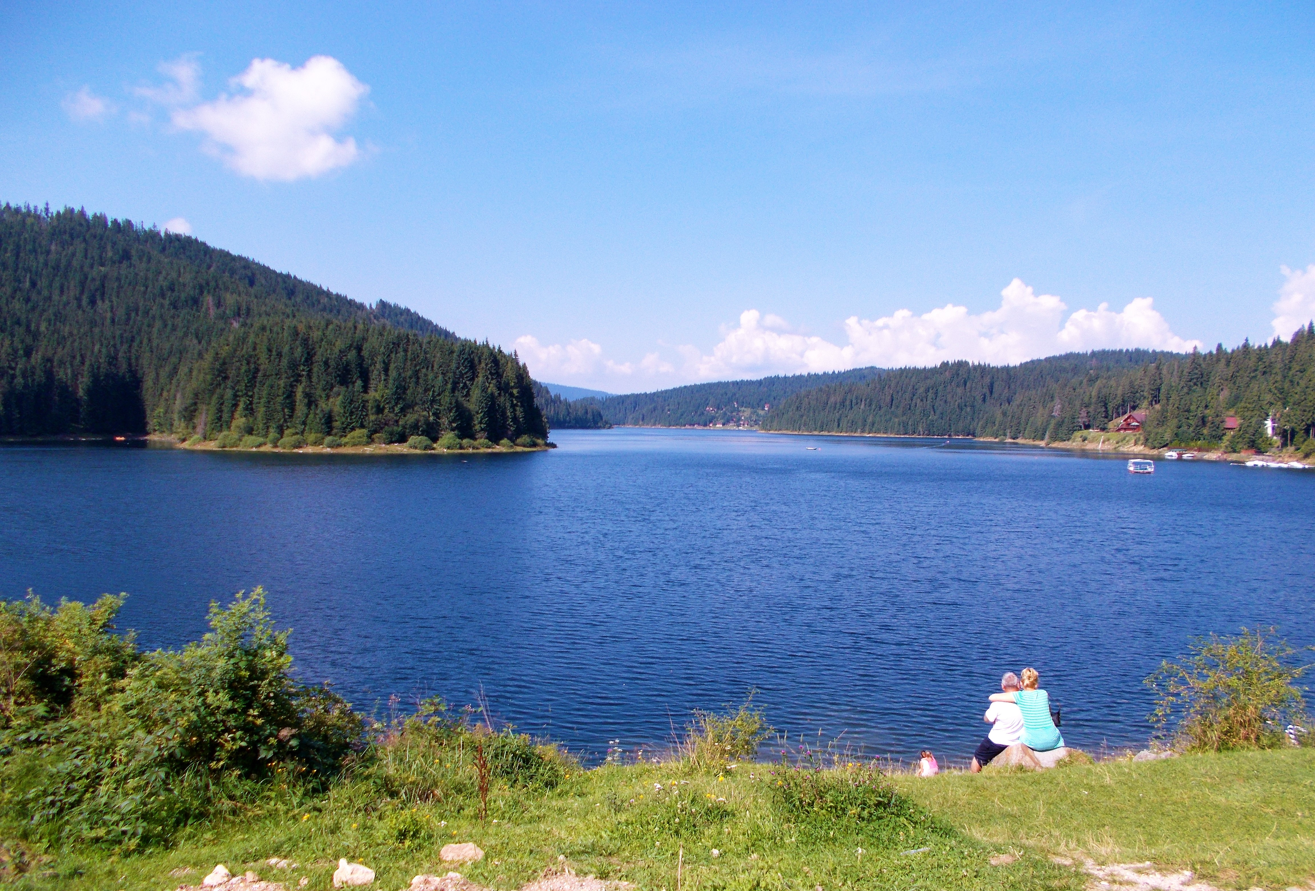 Beliș-Fântânele Lake, Apuseni Mountains, Cluj County, Romania